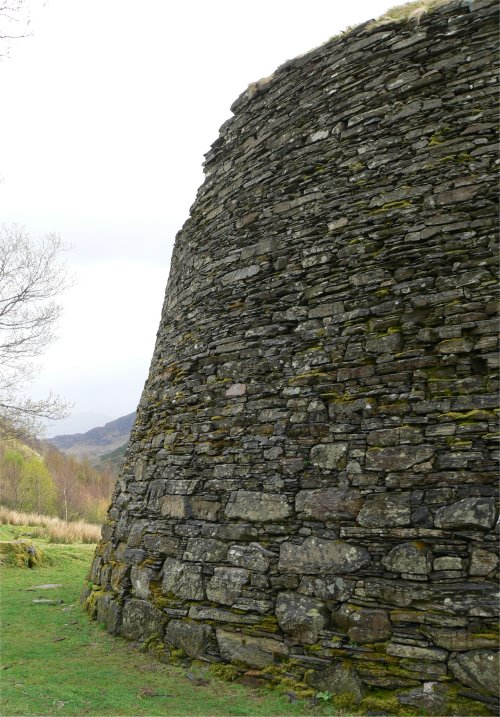 Dun Troddan, one of the Glenelg Brochs in Scotland